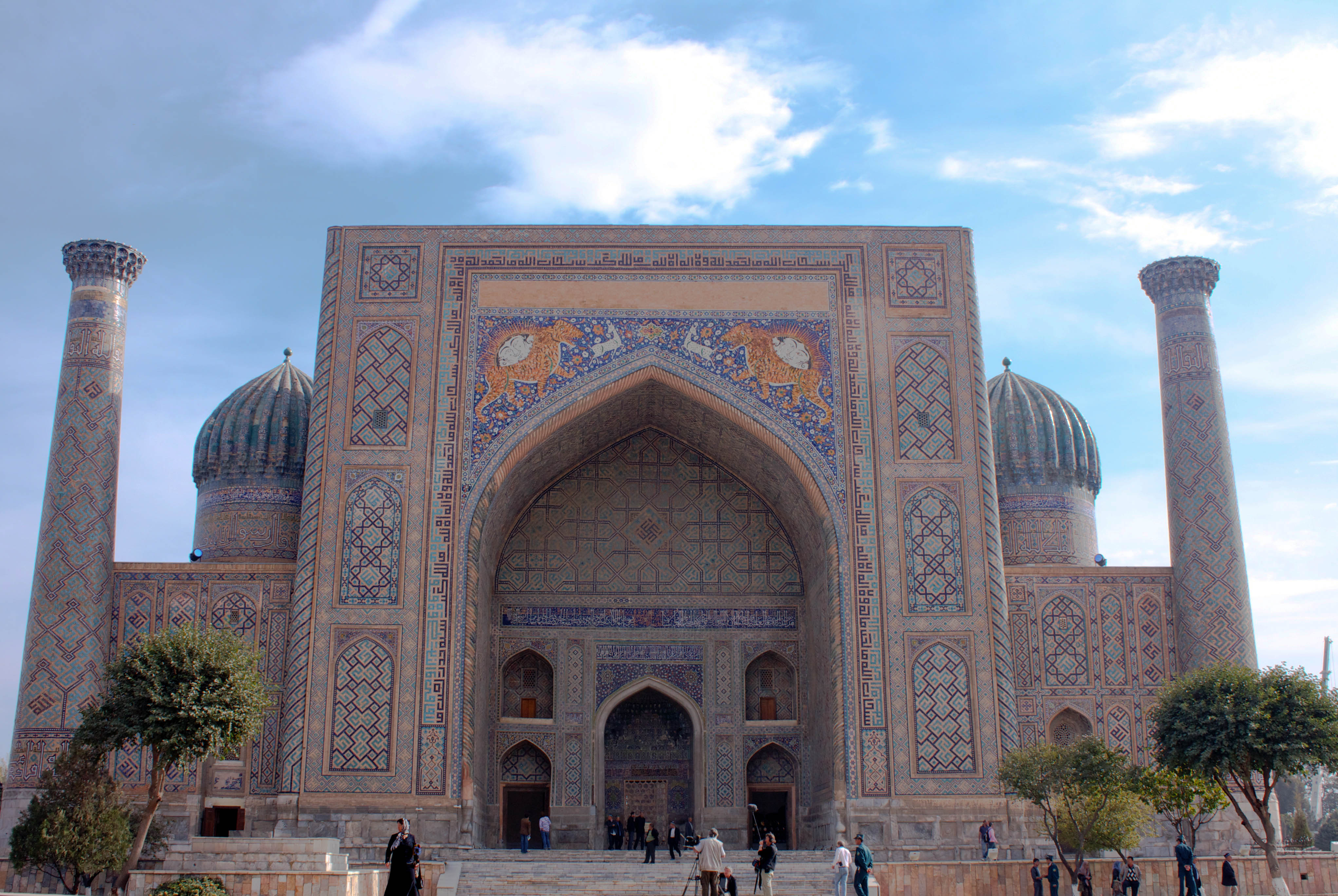 Sher-Dor Madrasah, Registan Sq, Samarkand, Uzbekistan with distinctive and most unusual tiger motifs in top corners.Architect was Abdujabor. Commissioned by Yalangtush Bakhodur in 17th Century. See Registan